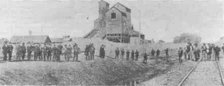 Miners gathering at the railroad tracks in Virden, Illinois on October 12, 1898, to meet the trainload of strikebreakers scheduled to arrive by rail. Other information